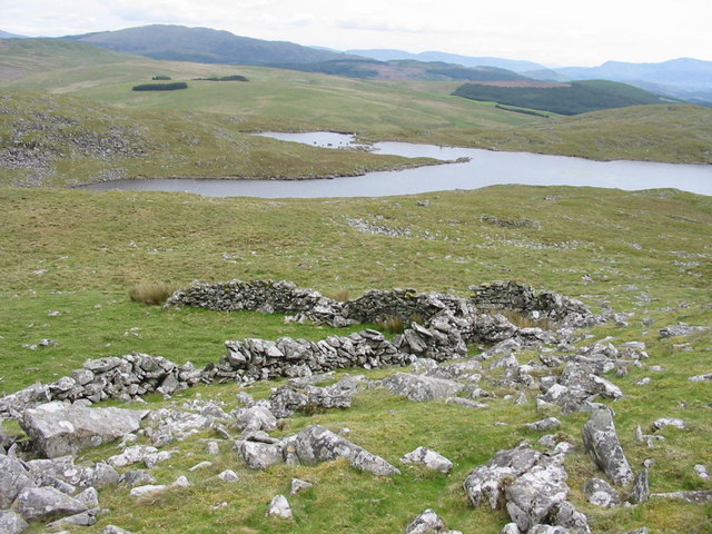 Above Llyn Gelli-gain The walls of the sheep pen echo the shape of the lake.